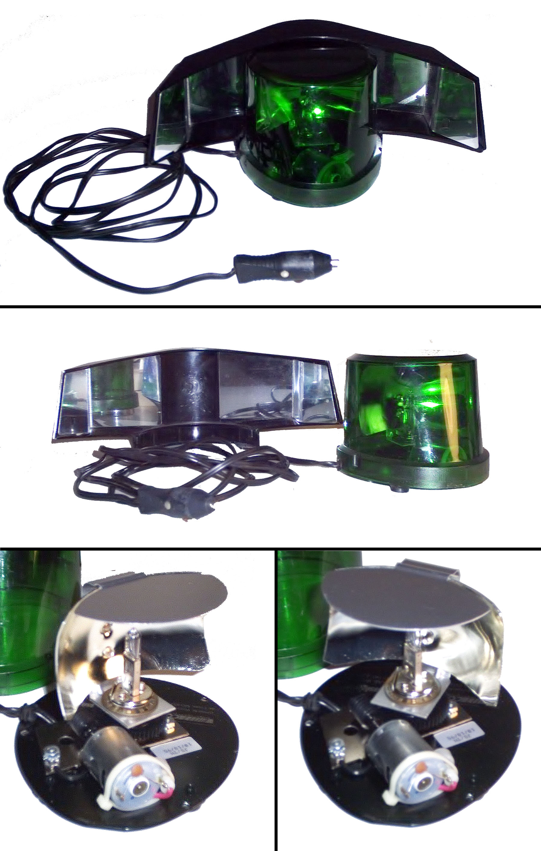 Composite of several photos I took of a Code 3 Dashlaser beacon with a green lens, in various states of disassembly